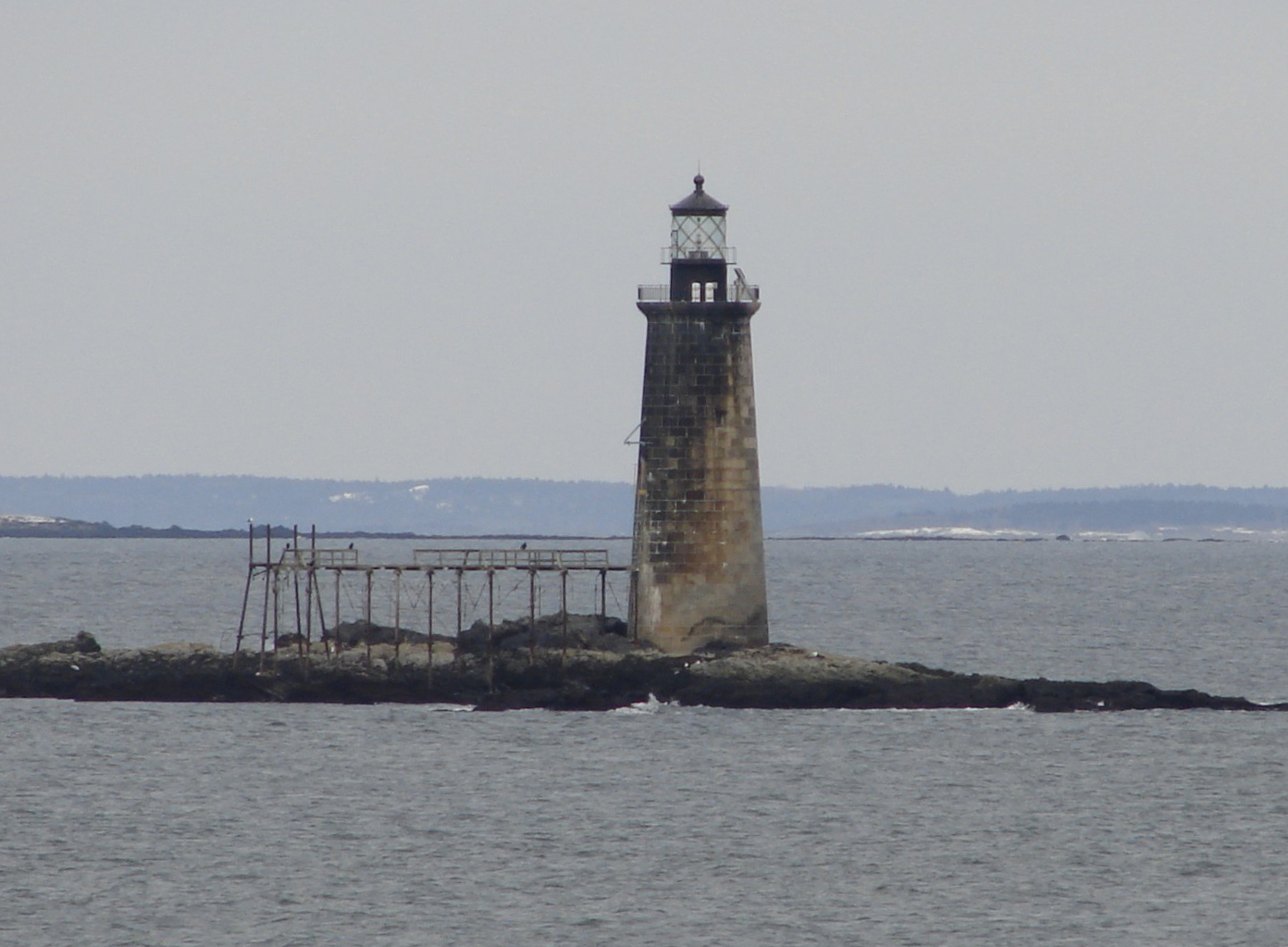 Ram Island Ledge Light near Portland, ME